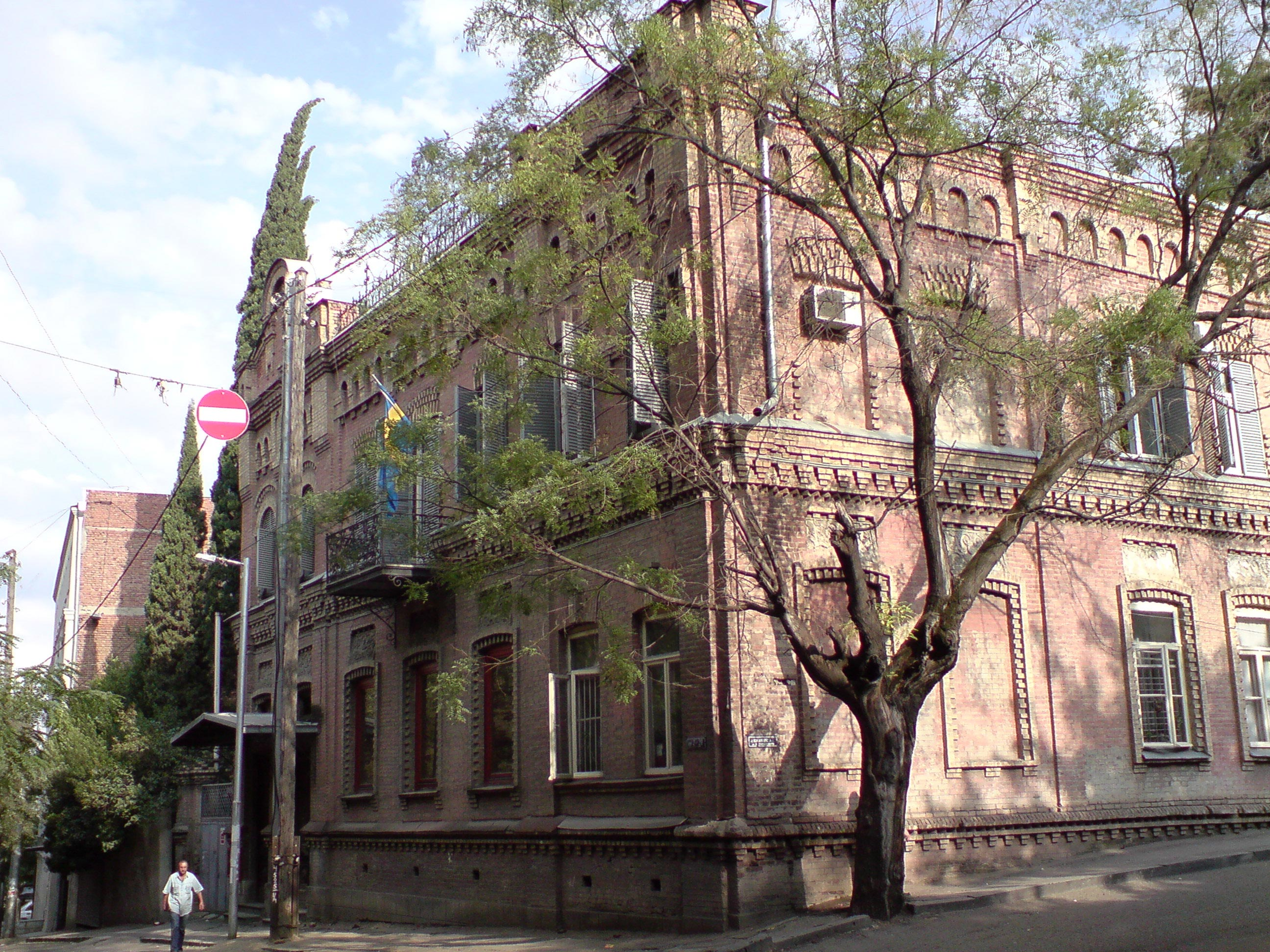 The Swedish Embassy in Tbilisi, Georgia.